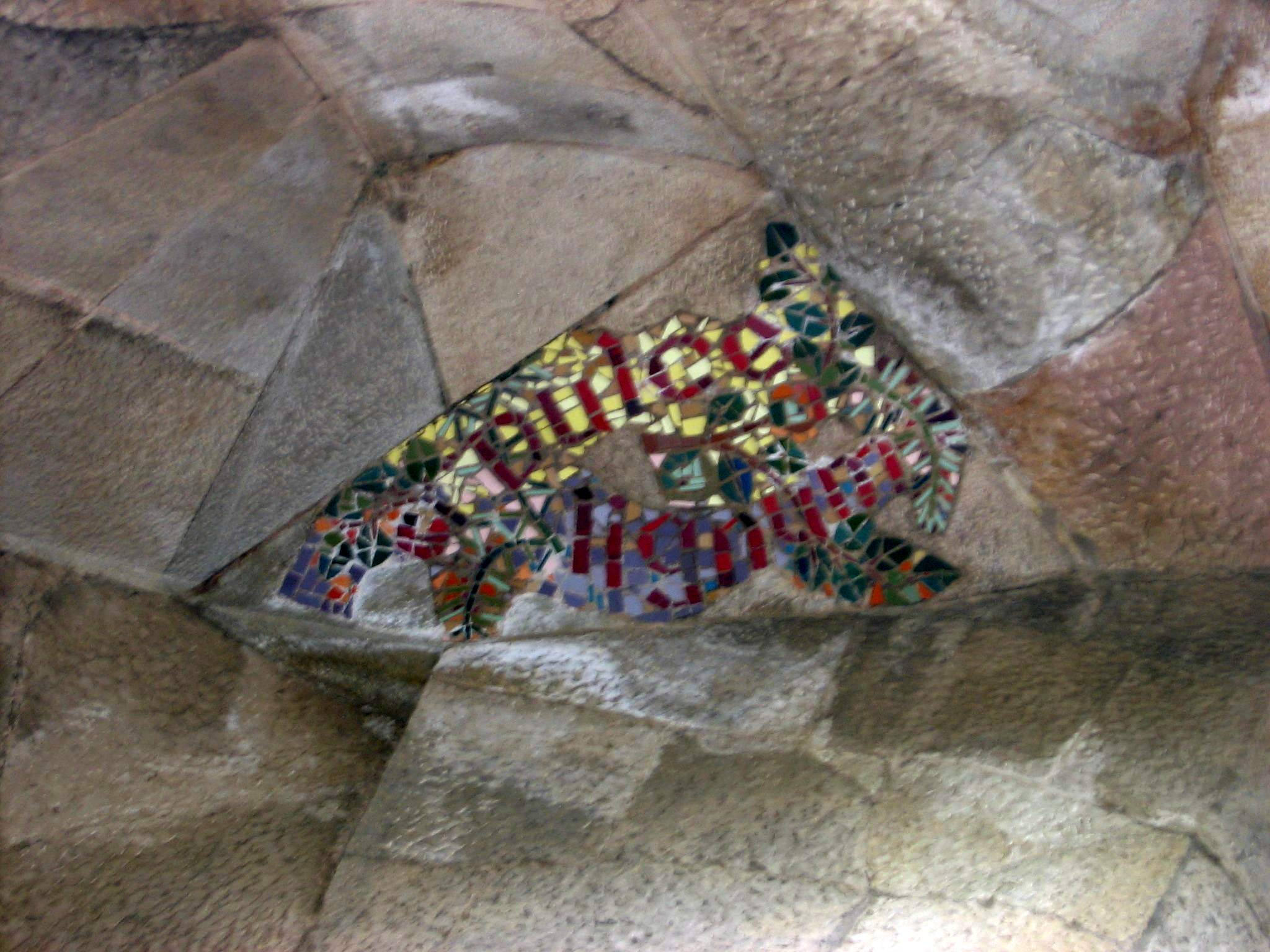 Dulce lignum, by Josep Maria Subirachs, on the Sagrada Familia. Next to the group of soldiers playing dice, the clothes of Jesus, is a small mosaic with the legend Dulce lignum ("sweet wood"), the hymn Crux fidelis by Venancio Fortunato: Sweet lignum, sweet nails, Dulce pondus sustinet (« Oh sweet wood, sweet nails that held so sweet weight! »).